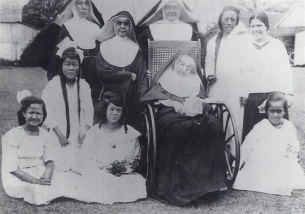 Walter Murray Gibson, about 1918.